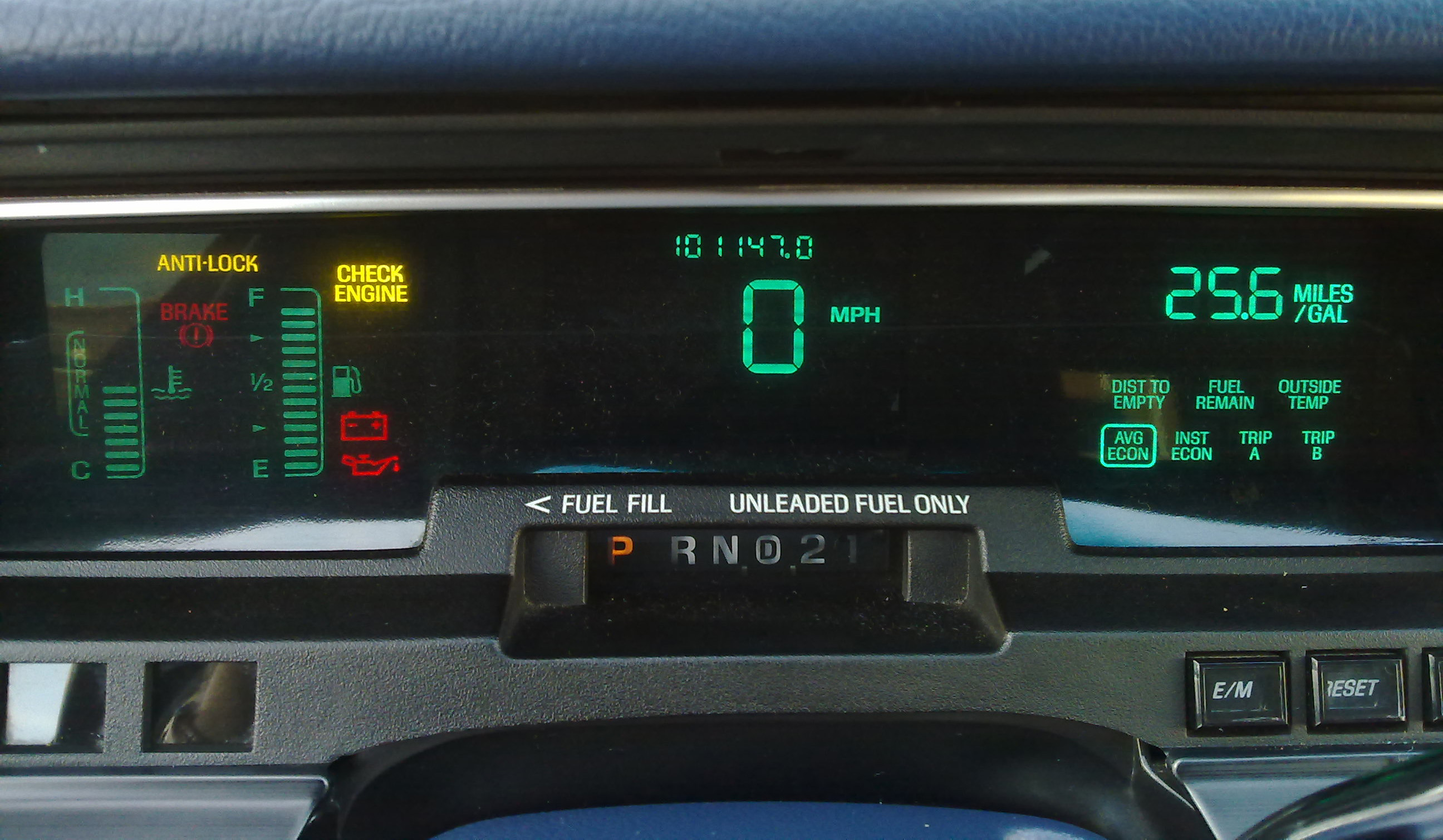 Digital dashboard cluster of a Mercury Grand Marquis. The cluster features three VFD displays (left third, middle third and right third). Varying colors are emitted through color filters.